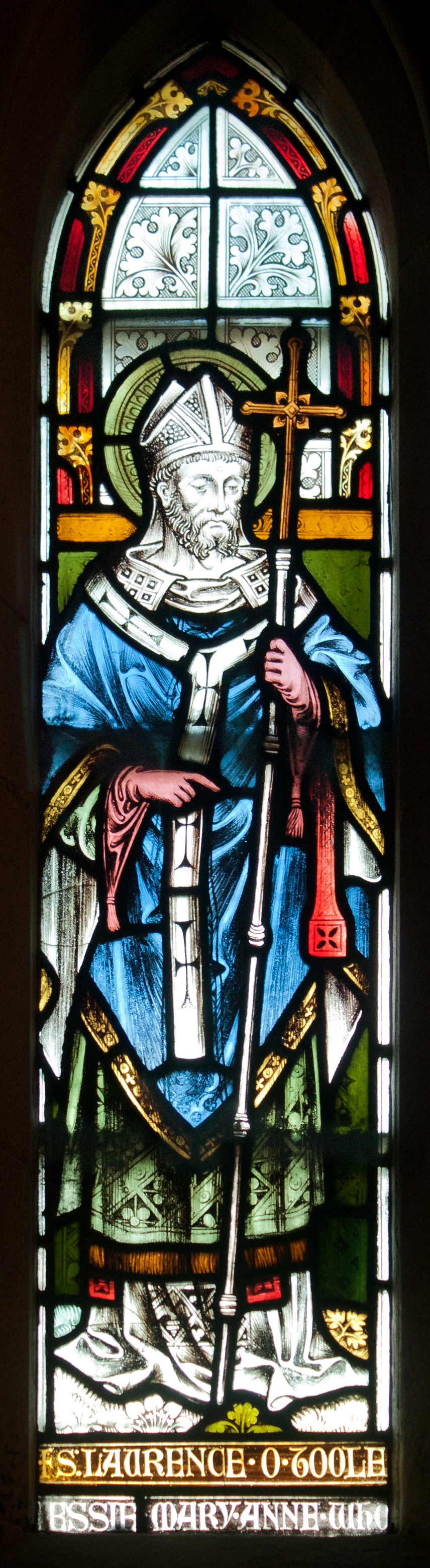 Second (from left) stained glass window in the north wall of the baptistery, depicting Laurence O'Toole. Presented by George Edmund Street (1824–1881) in memory of his wife, executed by Clayton & Bell, London.